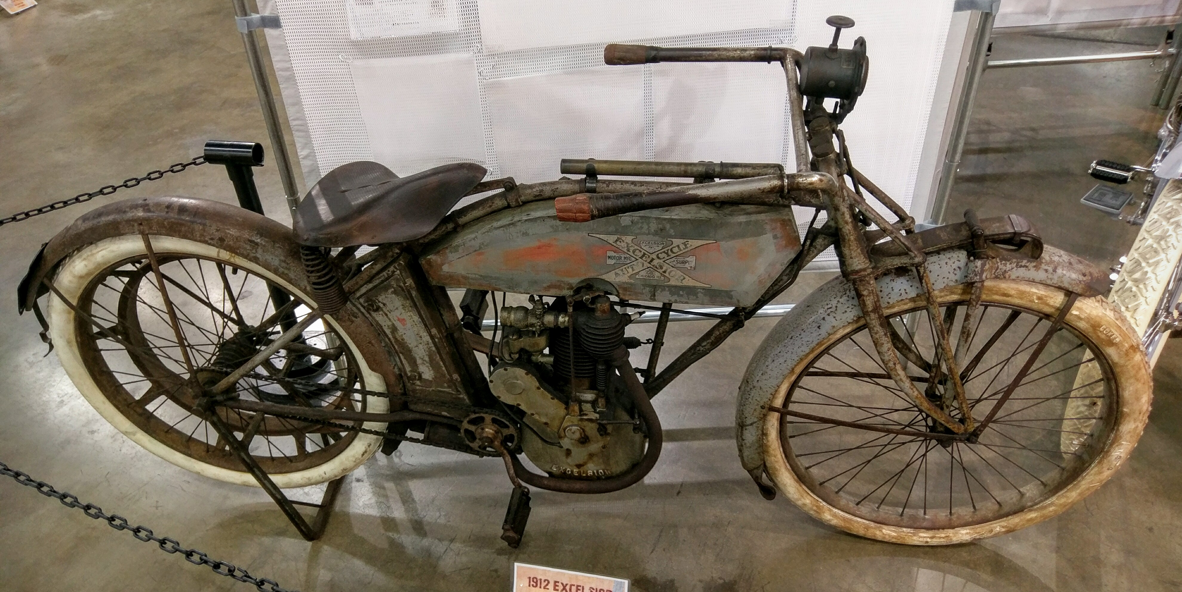 A 1912 Excelsior motorcycle on display at the California Automobile Museum. Photo by Jim Heaphy.